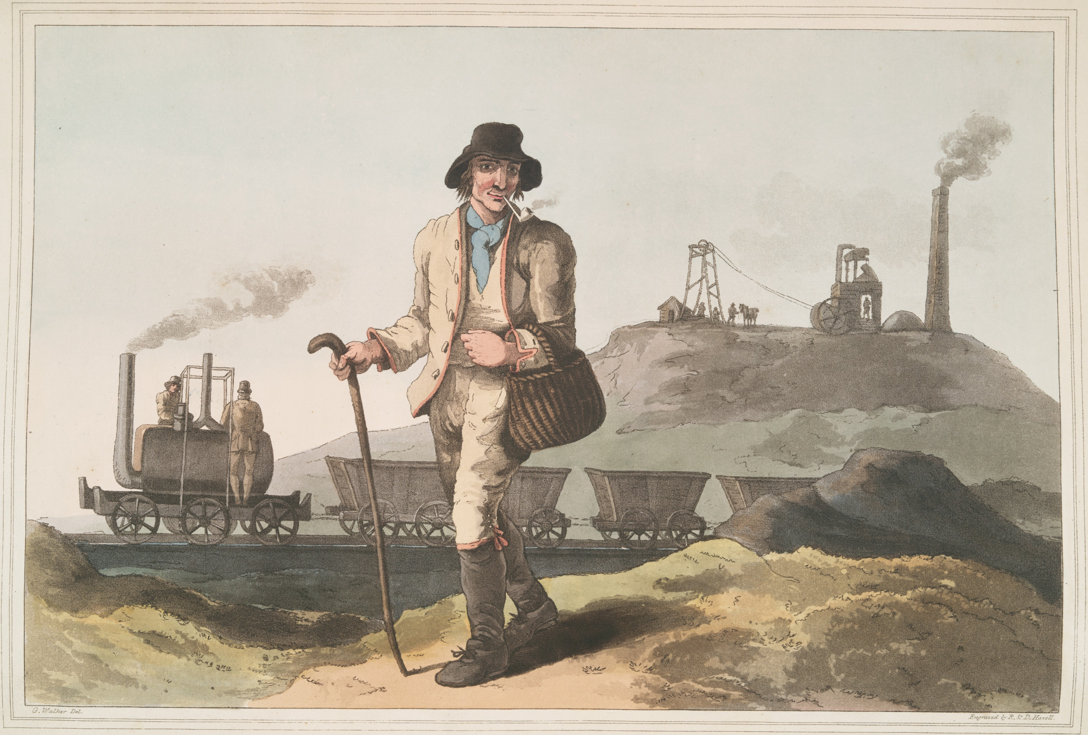 Image Title: The collier. Creator: Havell, R. & D. -- Engraver Additional Name(s): Walker, George, 1781-1856 -- Author Alternate Source Title: Costumes du comte d'York, réprésentés dans une série de quarante planches, fac-similes des desseins originaux, accompagnées de descriptions en anglois et en francois. Published Date:1813 Medium: Engravings Item Physical Description: 38 x 27 cm. Item/Page/Plate: Plate 3 Source: The costume of Yorkshire, illustrated by a series of forty engravings, being fac-similes of original drawings. With descriptions in English and French. Source Description: 5 p. l., 3-96 p. col. front., 40 col. pl. 48 cm. Location: Stephen A. Schwarzman Building / Rare Books Division Catalog Call Number: (Parsons) VWIP+ (Walker. Costume of Yorkshire) Digital ID: 1123151 Record ID: 359058 Digital Item Published: 3-1-2004; updated 3-25-2011